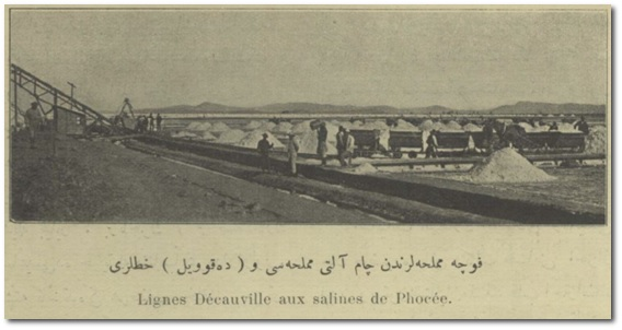 Décauville railway on the Foça saltpans, 1910